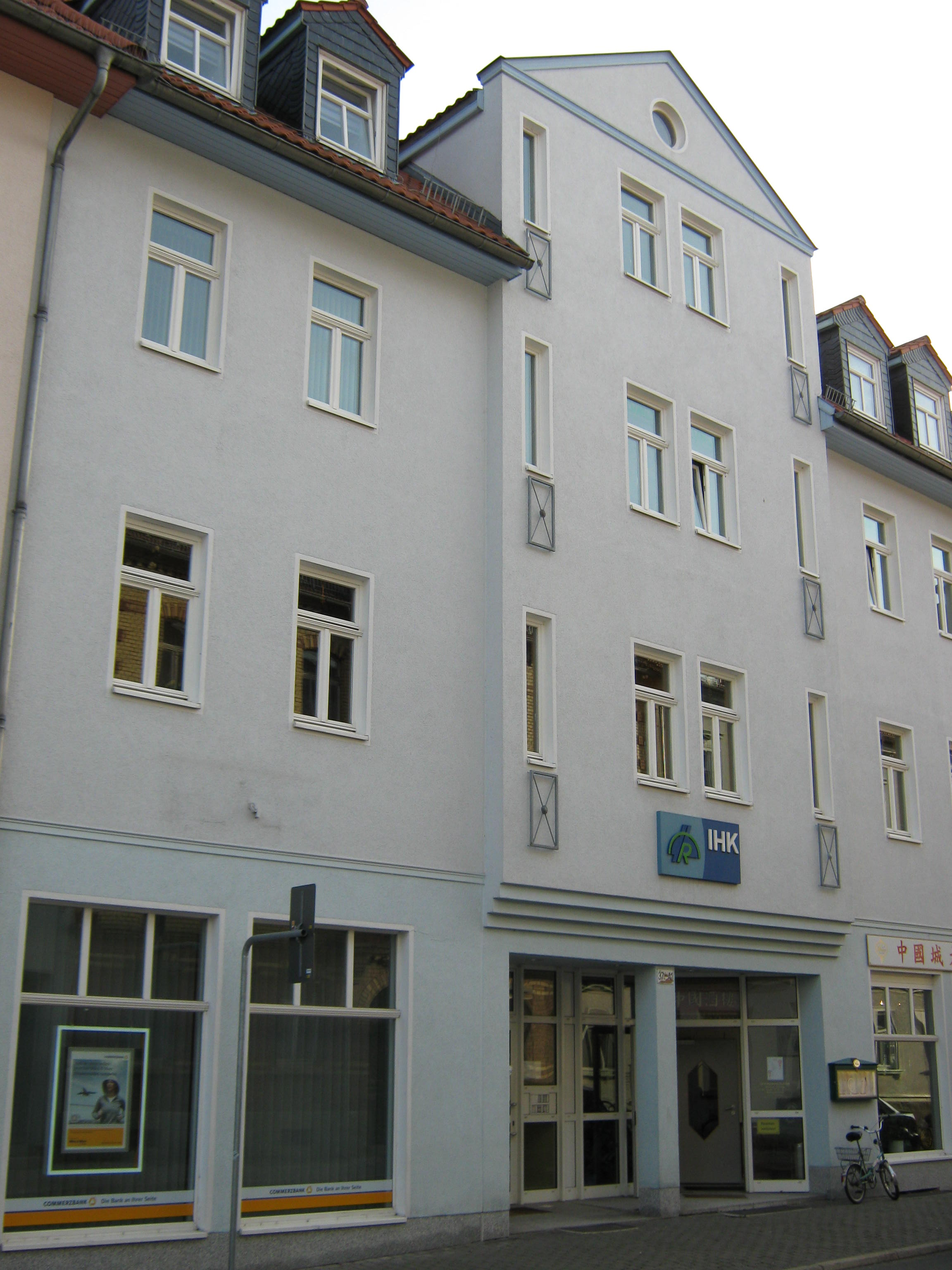 IHK Arnstadt, Krappgartenstrasse 37, Commercial chamber